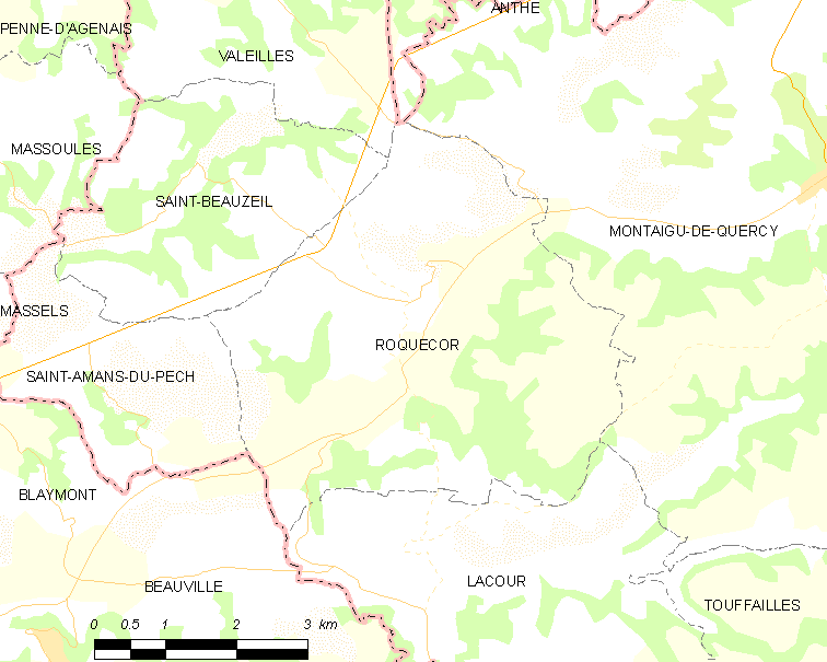 Map of French municipality Roquecor